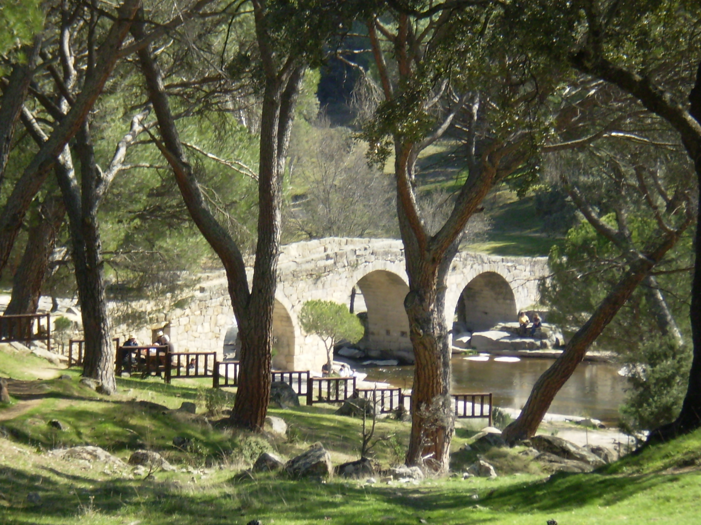 Mocha Bridge over Cofio River. Valdemaqueda. Community of Madrid, Spain